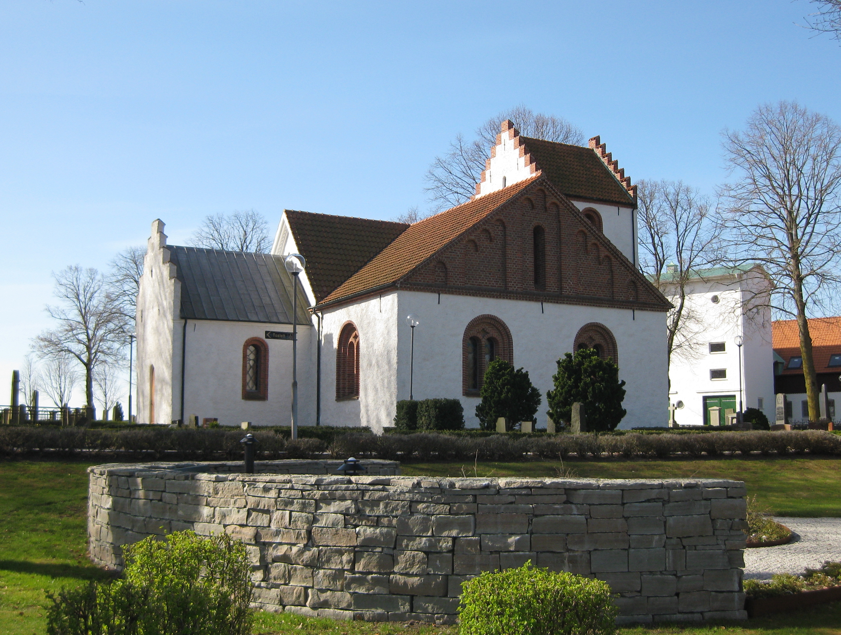 Stävie church in Skåne, Sweden